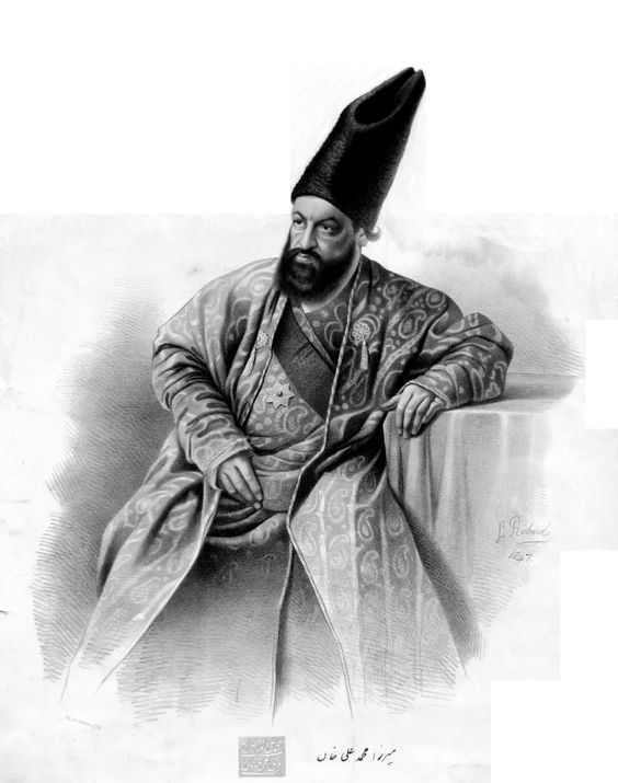 Mirza Mohammad-Ali Khan Shirazi, minister of foreign affairs of Persia (Iran) (1851–1852)